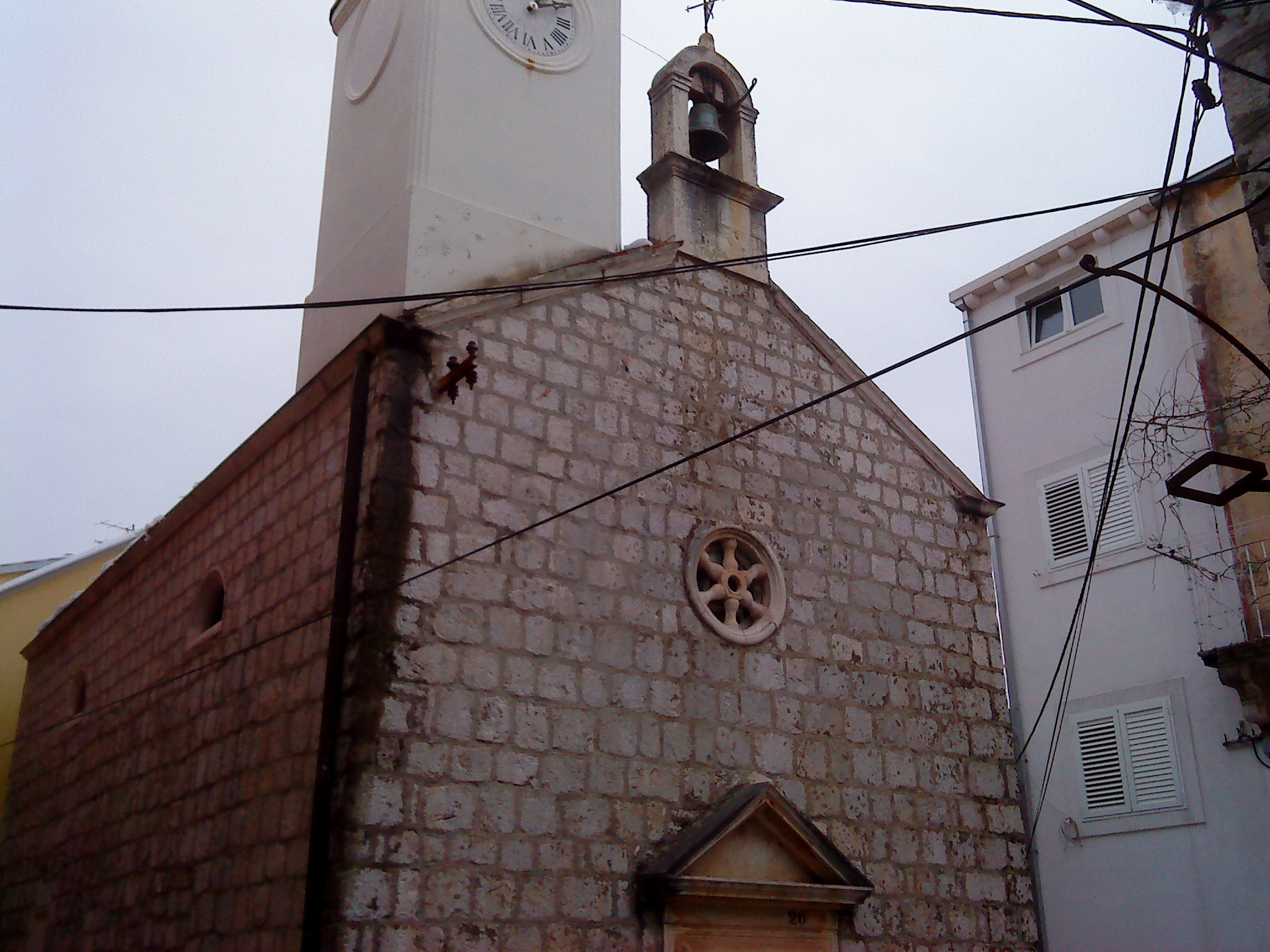 Our Lady of Karmel church , Trpanj